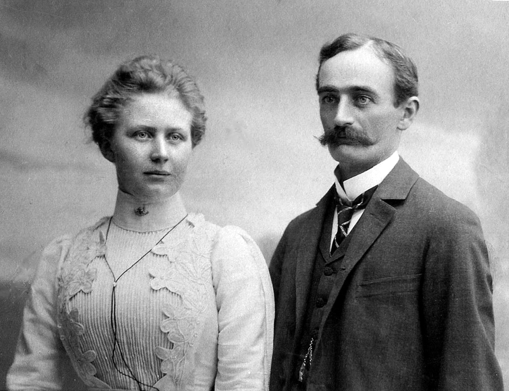 This image is believed to be of Elisabeth and Friedrich Trump, who emigrated to the United States and would become Donald Trump's grandparents. They are pictured here in 1902.